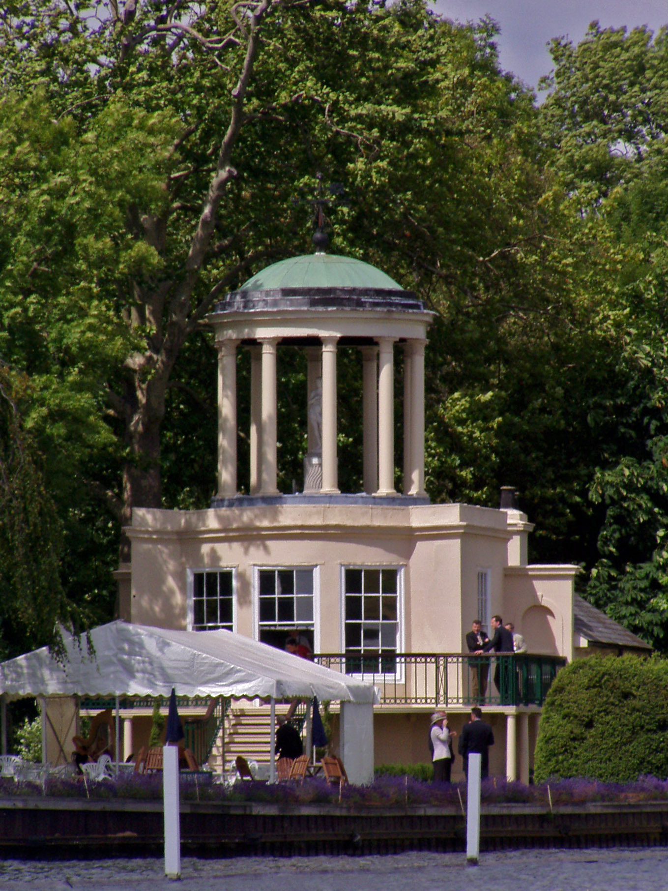 Temple Island on the River Thames — the start of Henley Royal Regatta, Henley-on-Thames, England. The island is hired out for corporate entertainment during the Regatta. Photograph taken 1 July 2004.